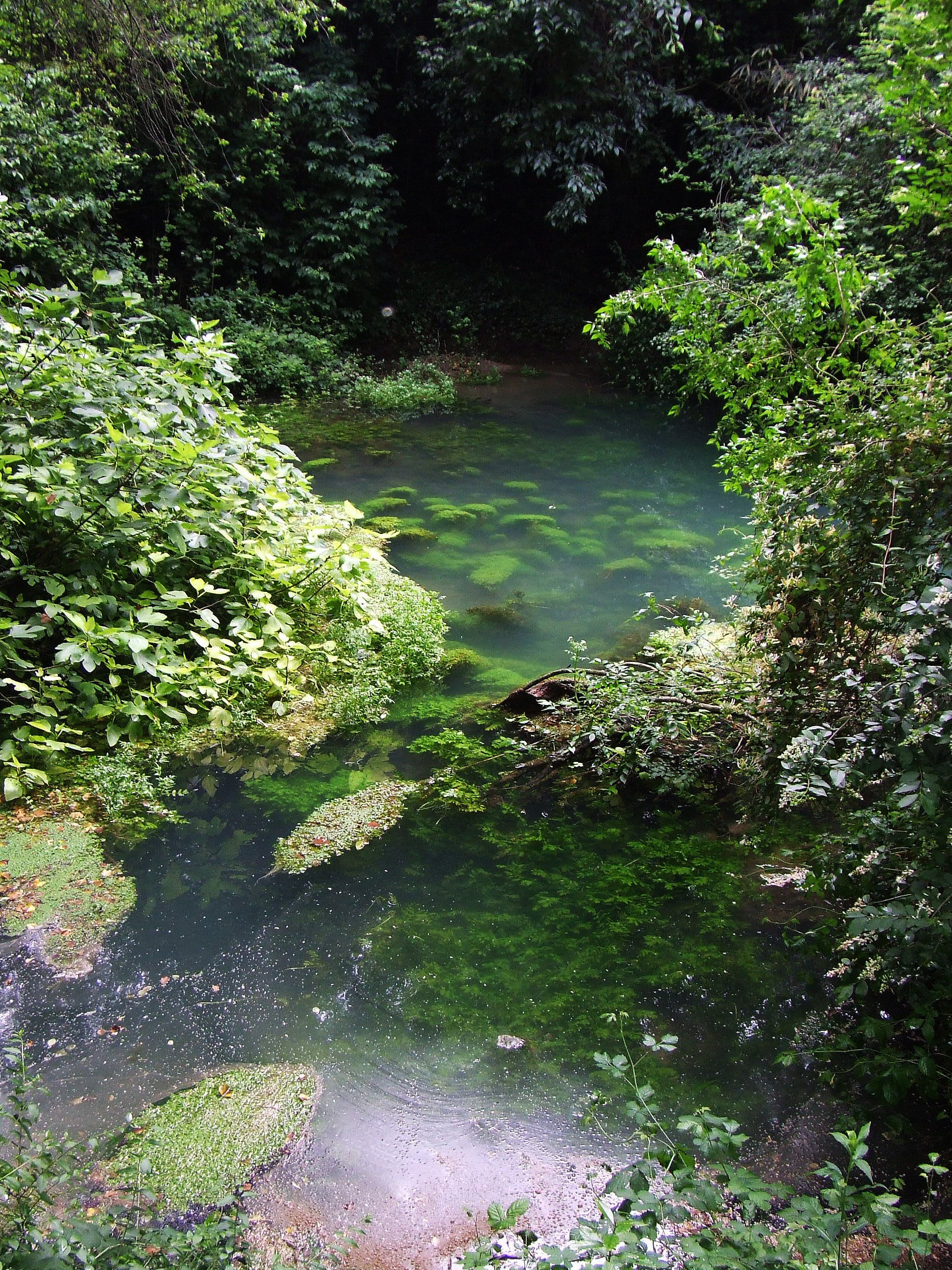 Timava, karst resurgence (after 38 km!) of 2 km long Italian river Timavo (Slovenian river Reka) near Golfo di Panzano at San Giovanni di Duino, Monfalcone, Italy